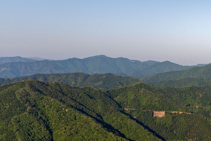 Mt. Hyakuri (Hyakurigadake) seen from southwest. Mt. Hyakuri in Shiga and Fukui, Japan.